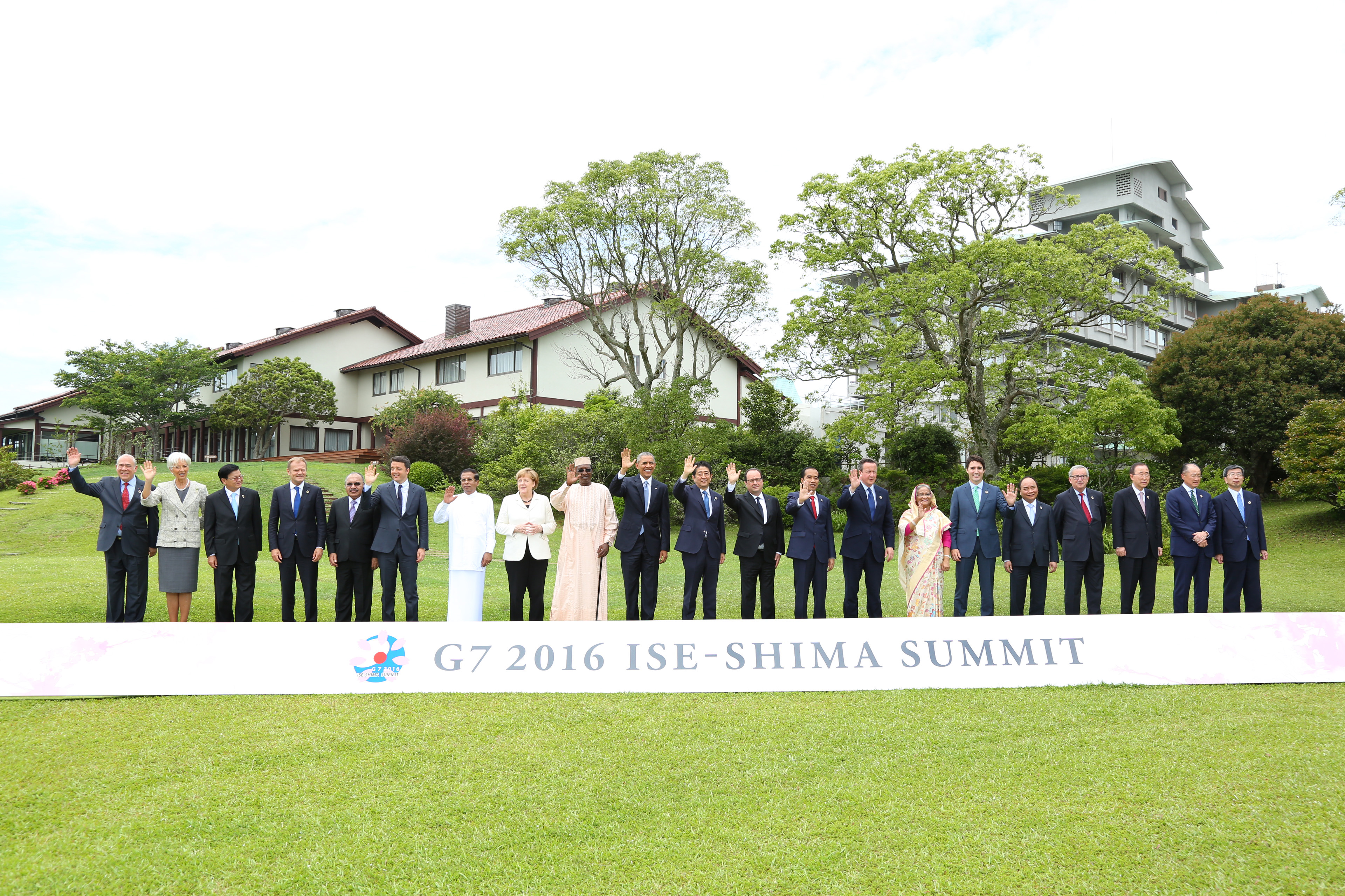 G7 Leaders and Guest Invitees at Shima Kanko Hotel. It is a scene at 42nd G7 summit.